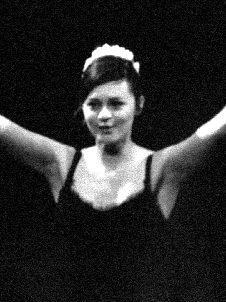 Émilie Simon/Émilie Simon, 2004 - image cropped for wp article infobox